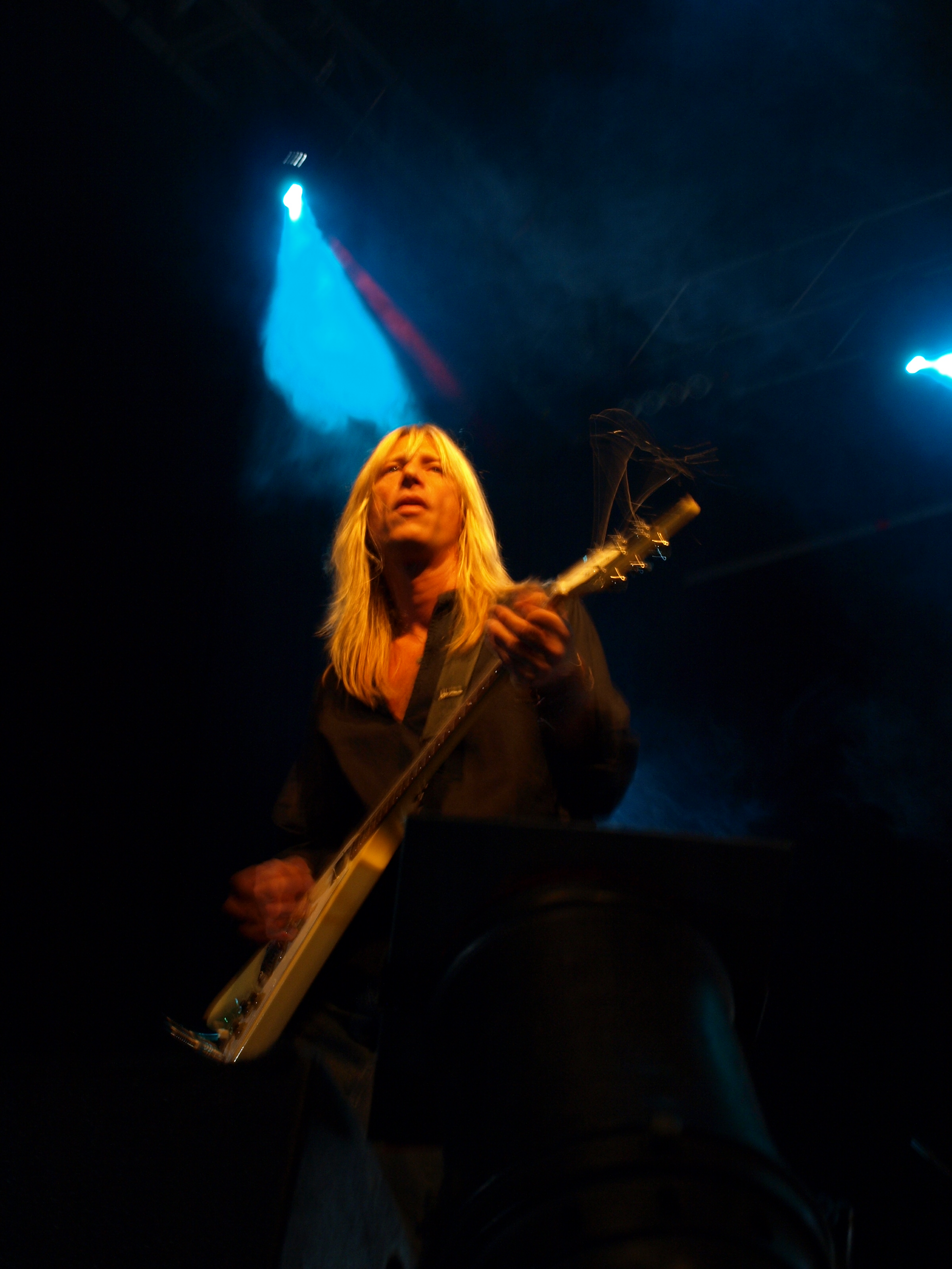 American doom metal band Trouble live at Jalometalli 2008 in Oulu.